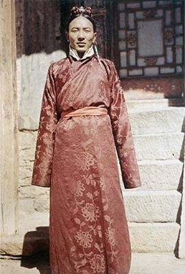 Yapshi Langdun, possibly taken outside his house in Lhasa. He is wearing a brocade chuba or outer garment